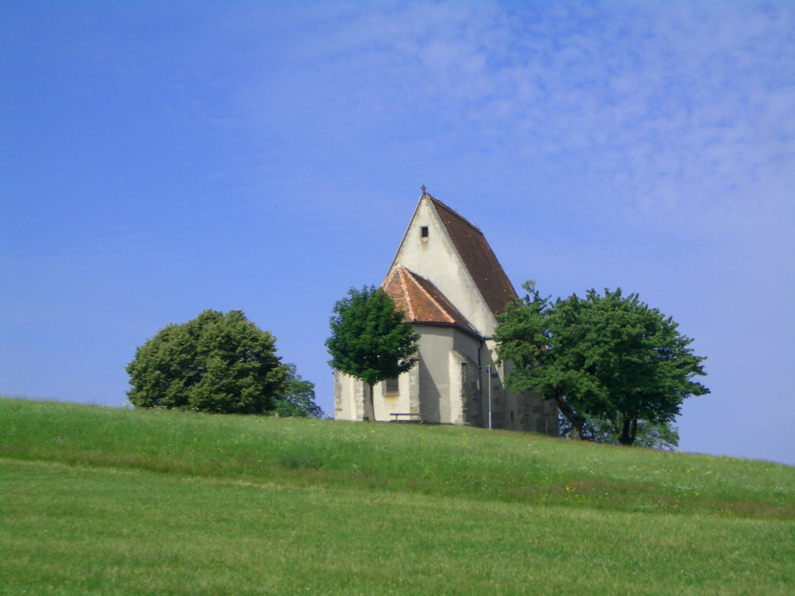 Church of Wenceslaus in Wartberg ob der Aist (Upper Austria)